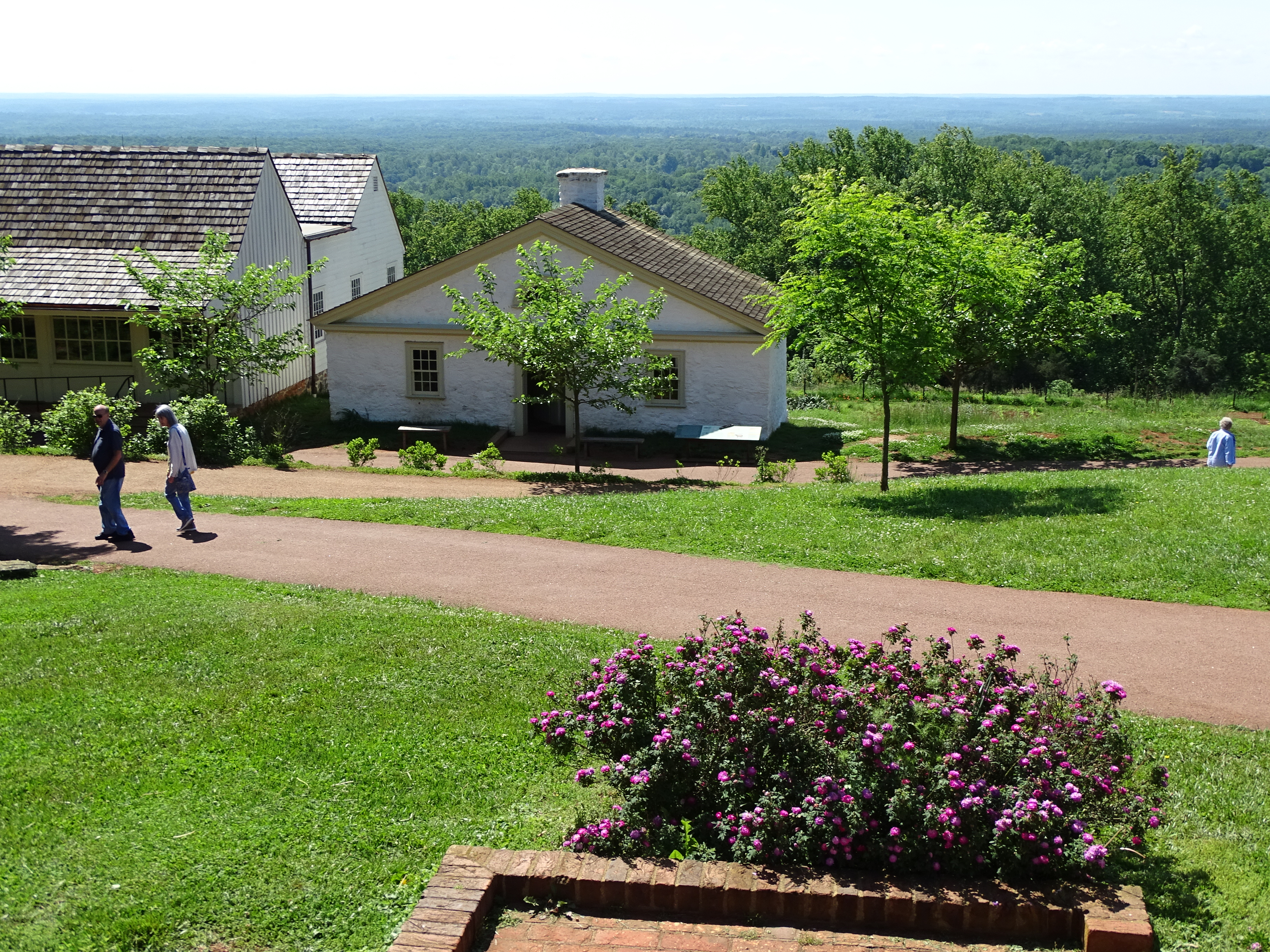 Monticello - Thomas Jefferson's Plantation - Charlottesville - Virginia - USA - 02